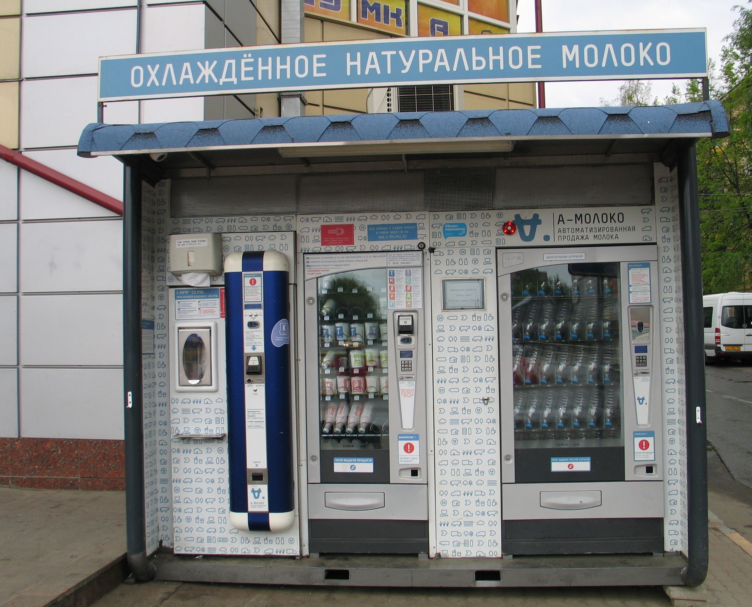 Milk vending machine